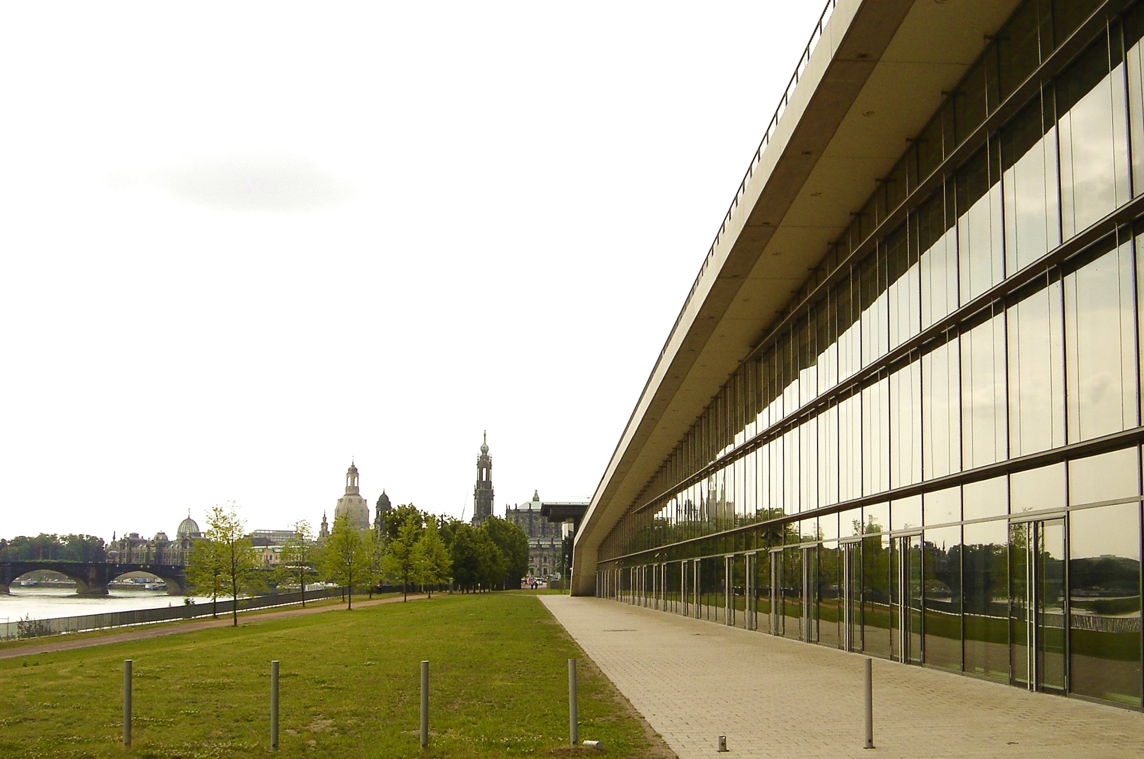 International Congress Center and Neue Terrasse in Dresden